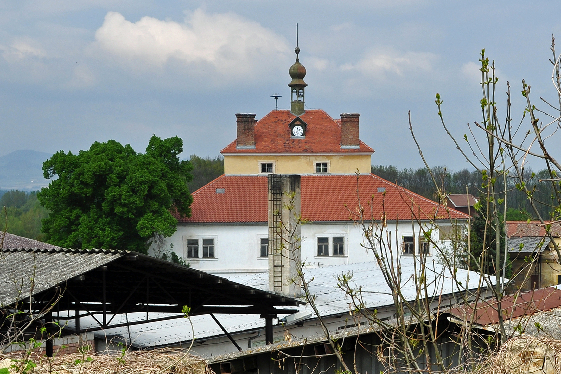 Pátek - Castle